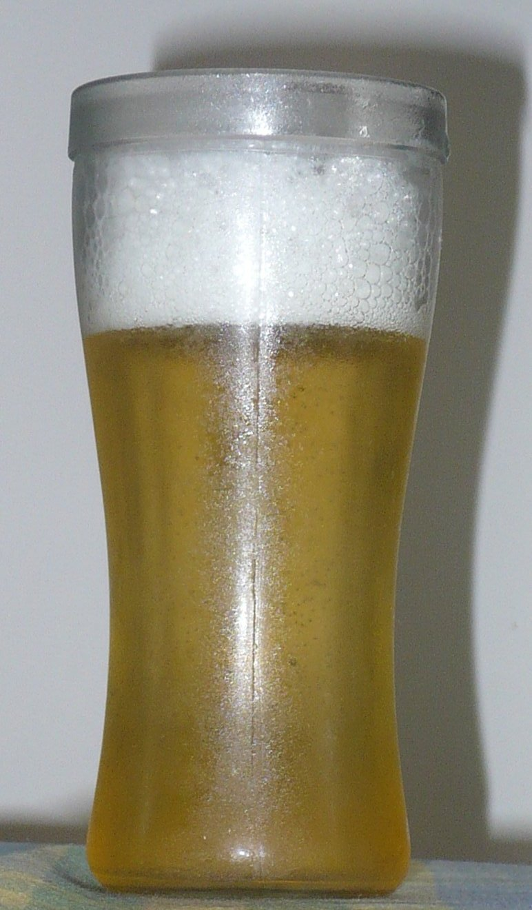 Glass of beer